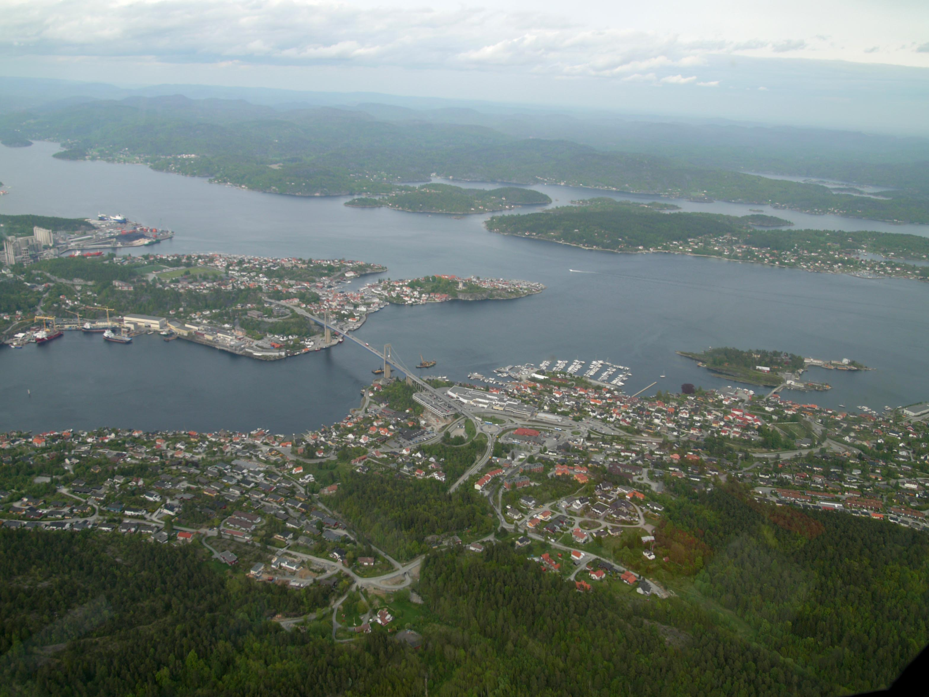 Bamble and Brevik, Norway